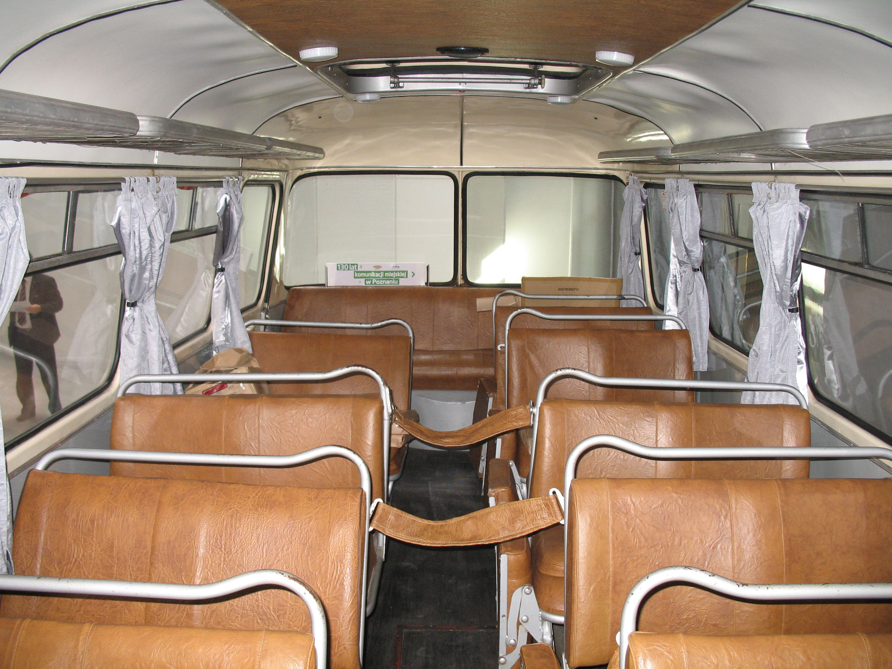 Jelcz 043 bus interior (#1679) in Kielce, Poland. Built 1985, MPK Poznań operator.